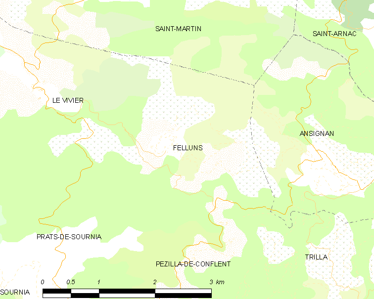 Map of French municipality